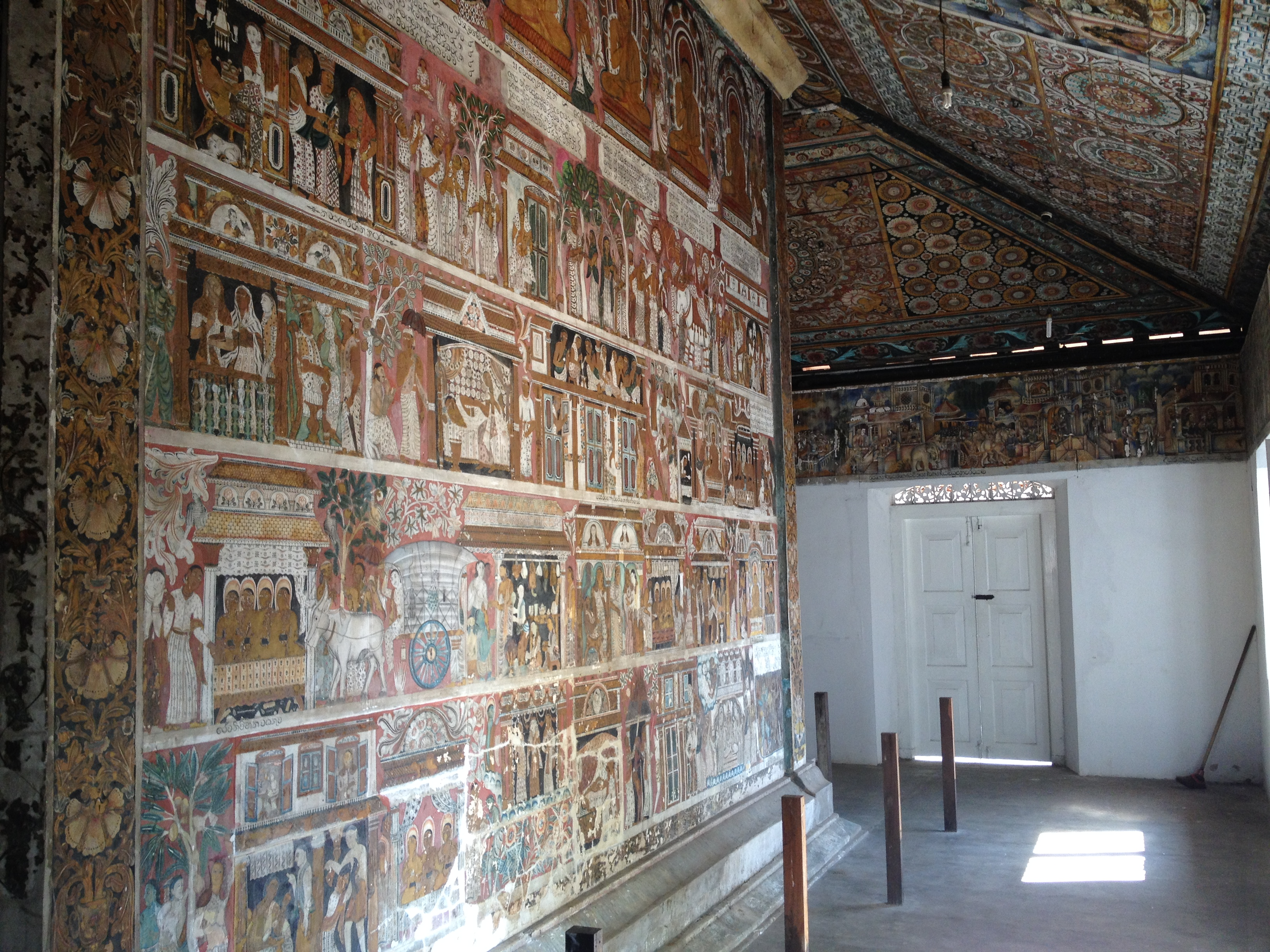 Paintings of the image house at the Subodharama (Karagampitiya) temple, Sri Lanka.